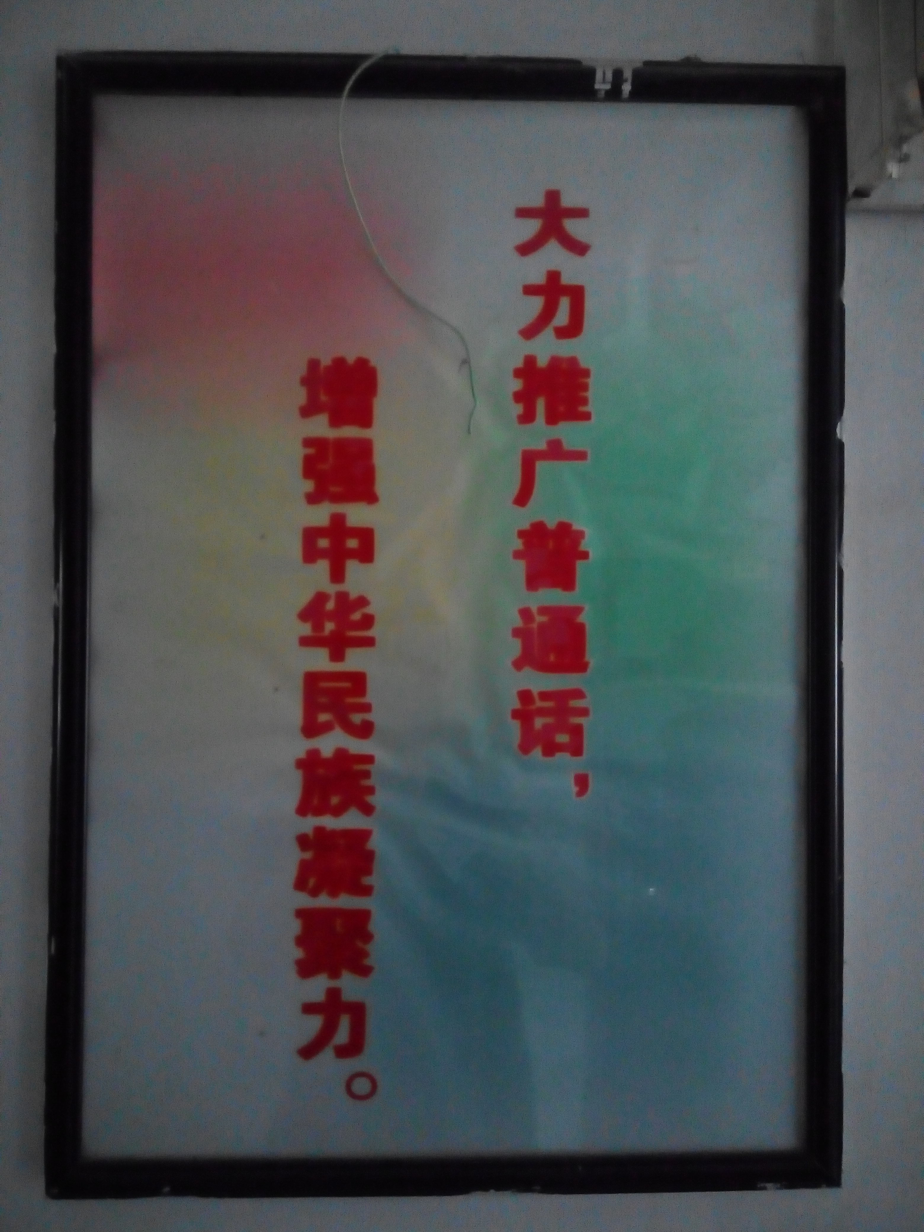 Wuhan University of Technology